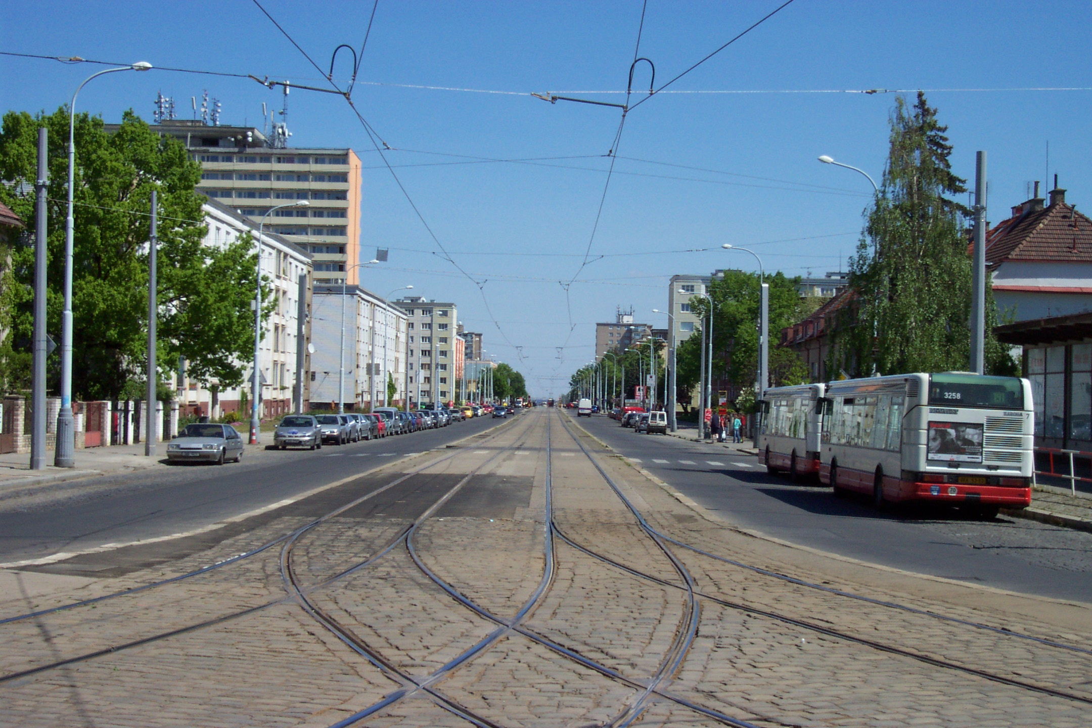 Tram track and street Na Petřinách